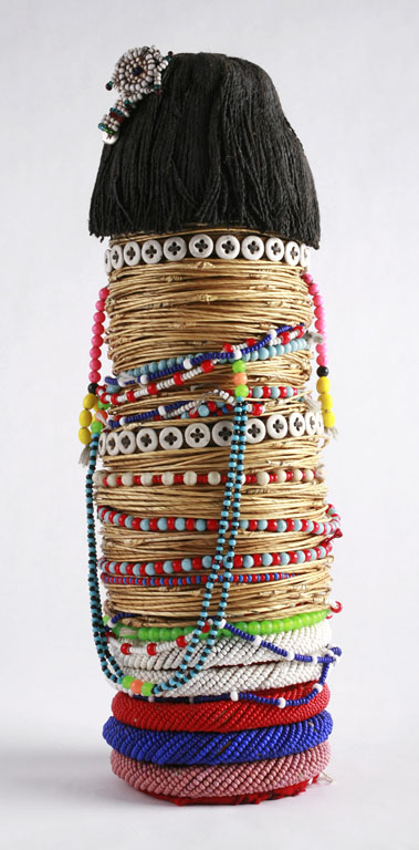 A Beaded doll in the permanent collection of The Children’s Museum of Indianapolis.